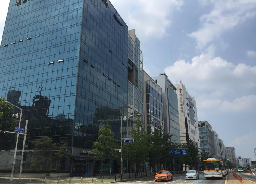 ilsan.madu.station